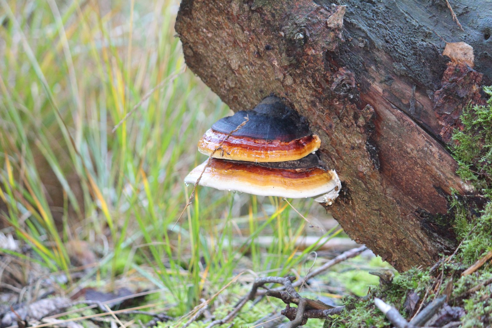 a tree mushroom appr. 4 inches